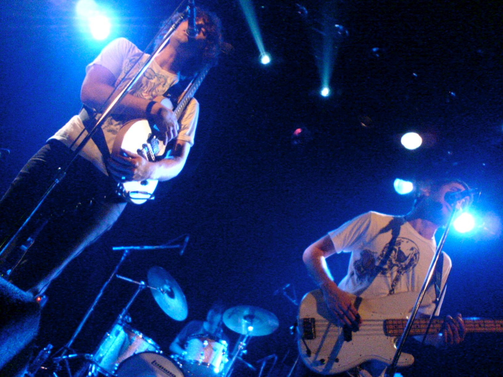 Luke Jenner and Matt Safer from The Rapture playing at de Melkweg in Amsterdam.